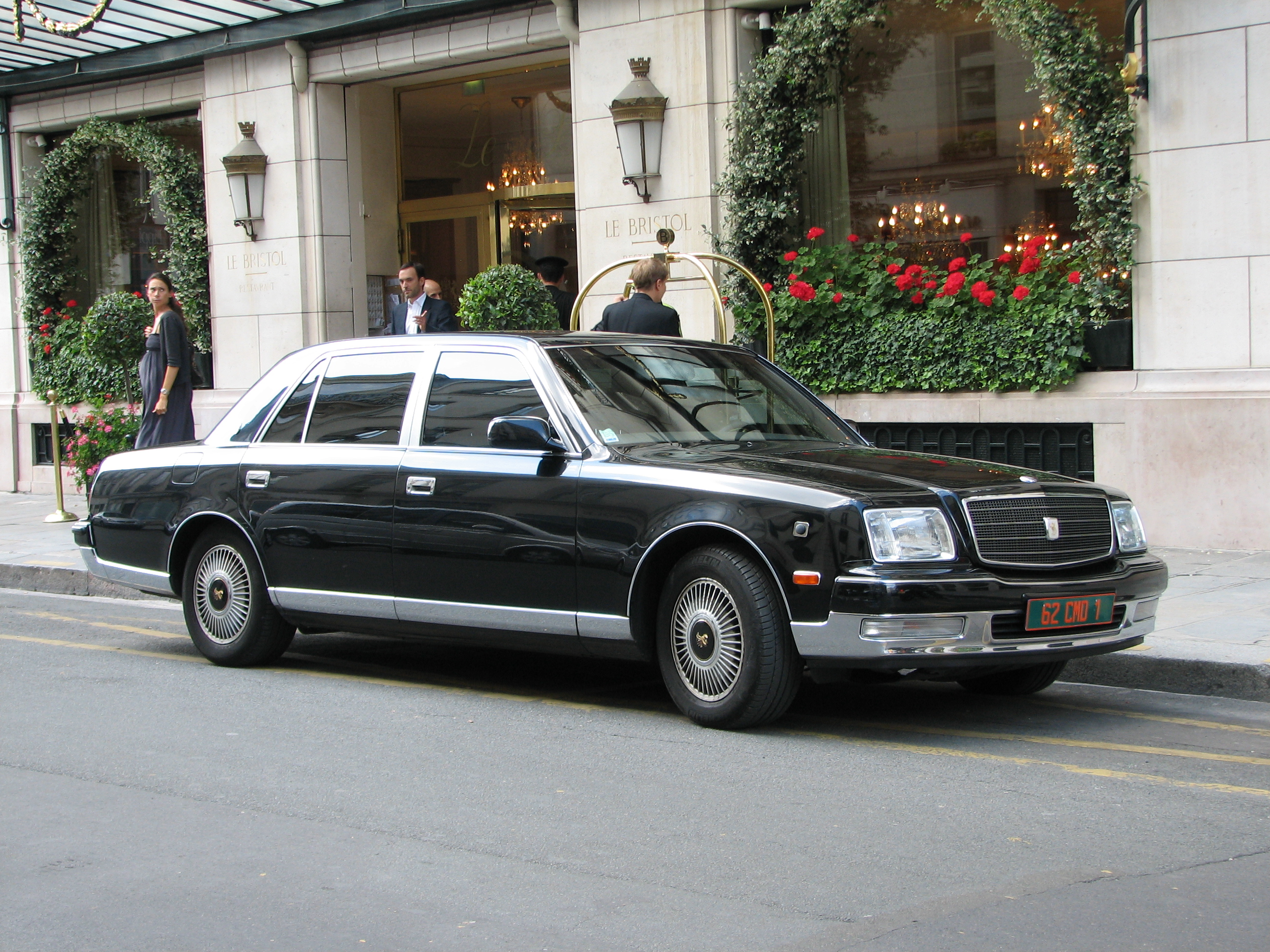 Toyota Century parked in front of Le Bristol hotel, rue du Faubourg Saint-Honoré. It has diplomatic plates so it probably belongs to the Japanese embassy located further up the street. CMD on the licence plate = Chef Mission Diplomatique (Ambassador), and 62 = Japan.